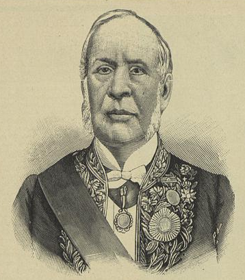 Luís Augusto Pinto de Soveral, 1st Viscount of Soveral (1811-1905)